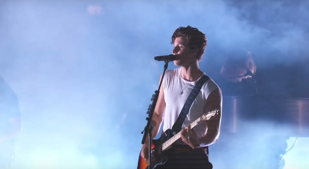 Shawn Mendes Performs "In My Blood" MTV VMAs in 2018